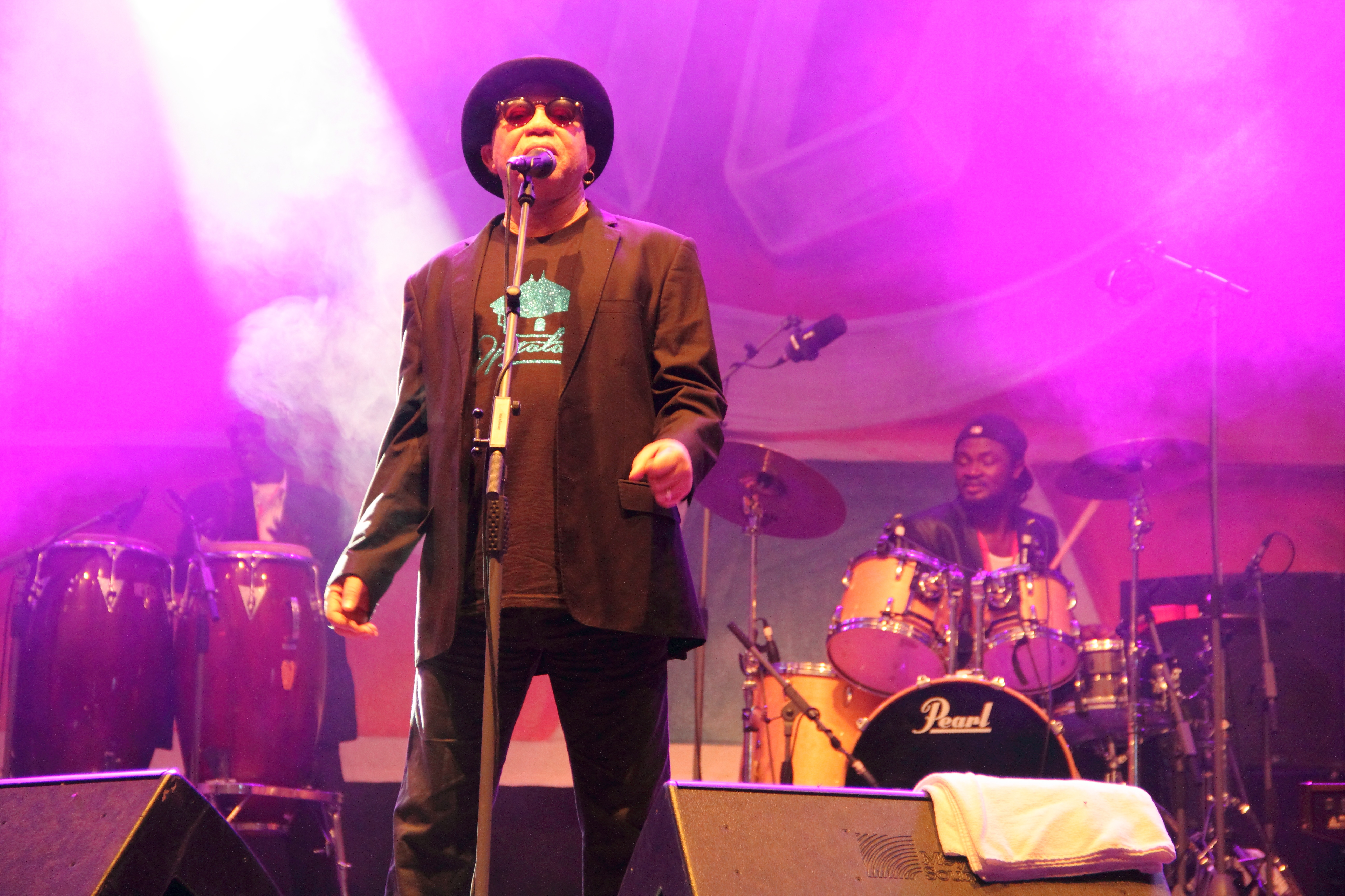 Salif Keïta & Les Ambassadeurs at TFF Rudolstadt 2015.